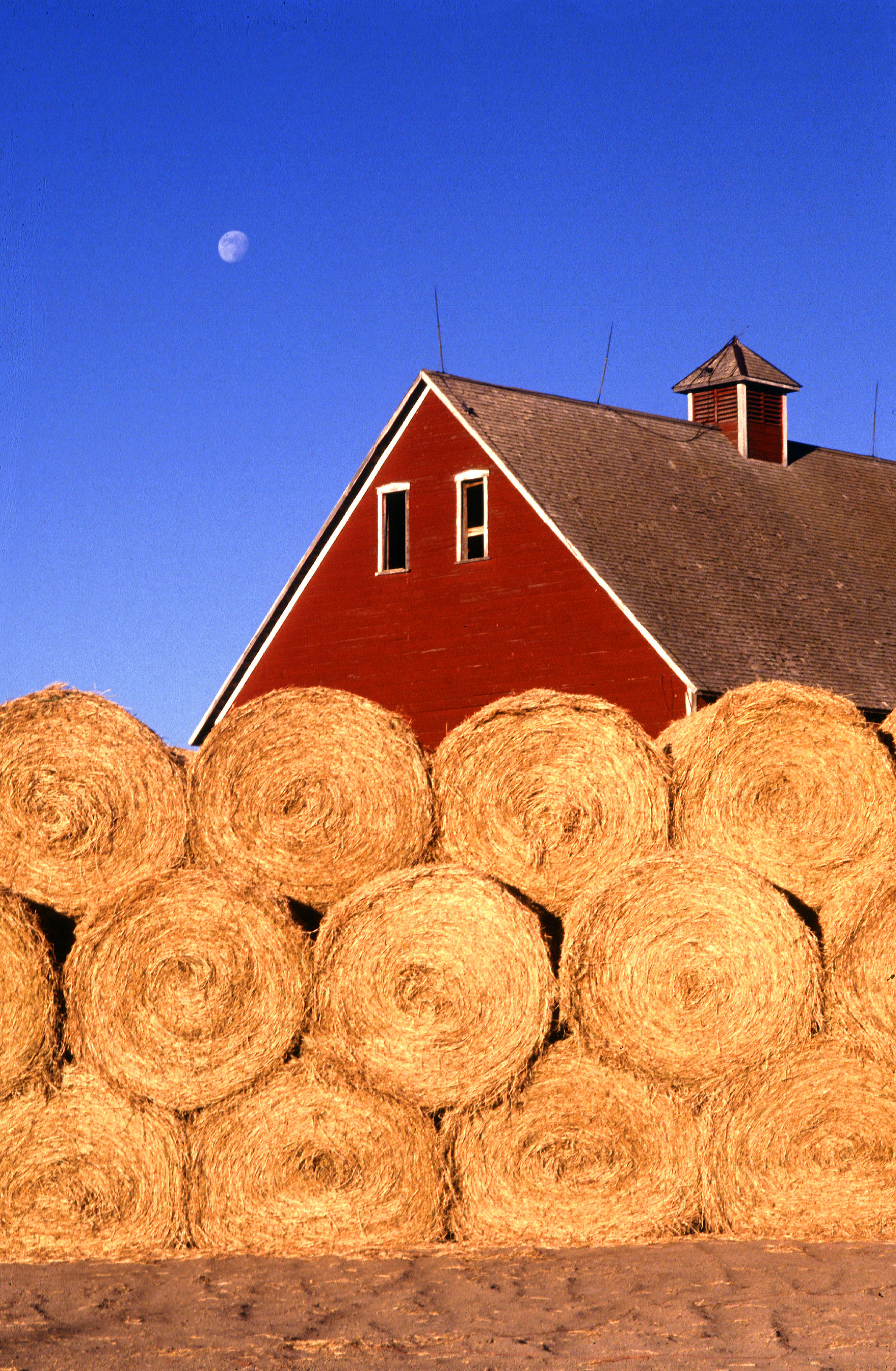 Straw bales in front of a small farm near Ames, Iowa.